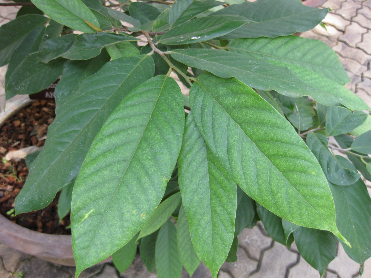 Mitrephora winitii Craib. Photographed at the Queen Sirikit Botanic Garden (Chiang Mai Province, Thailand) in March